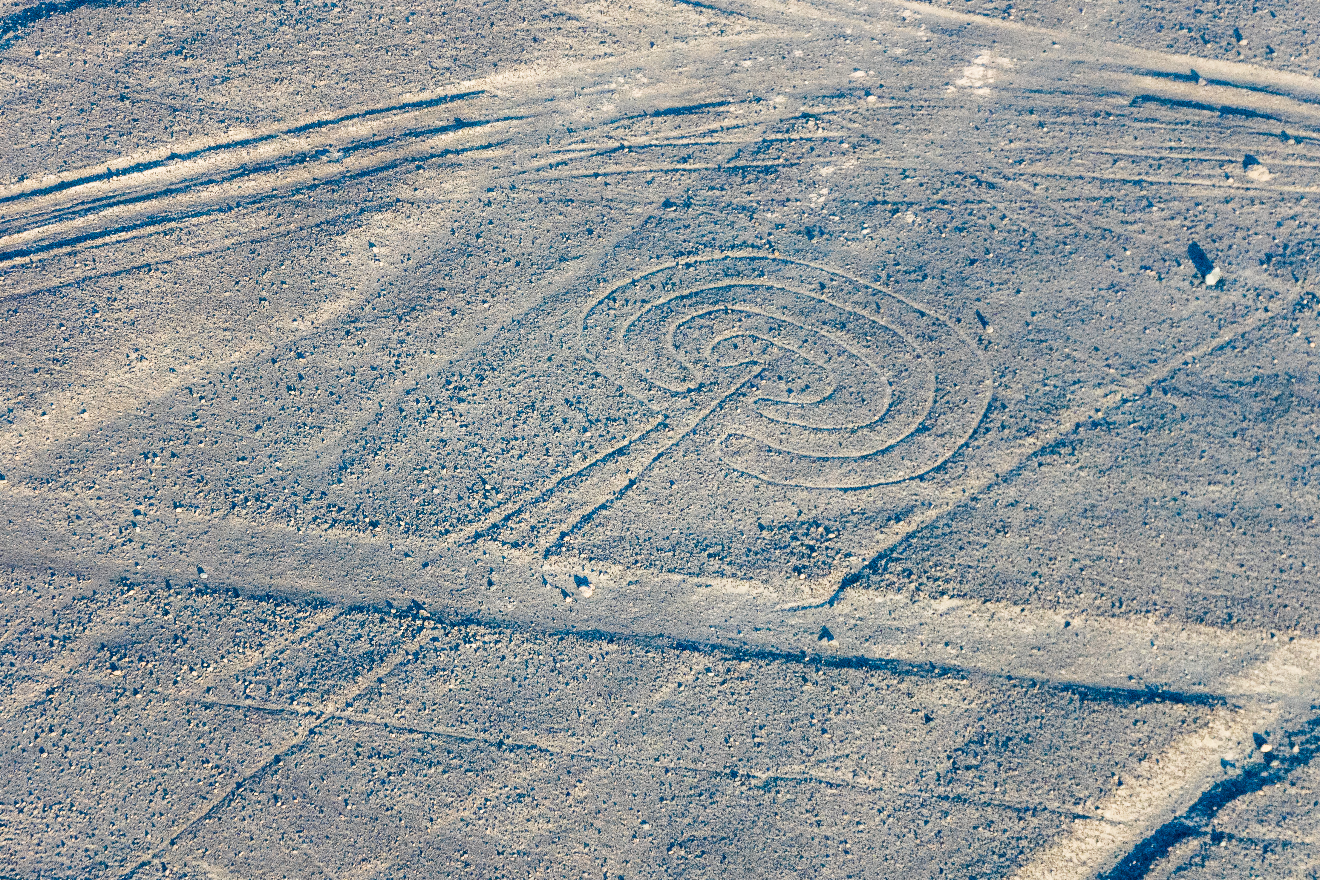 Nazca Lines, Nazca, Peru